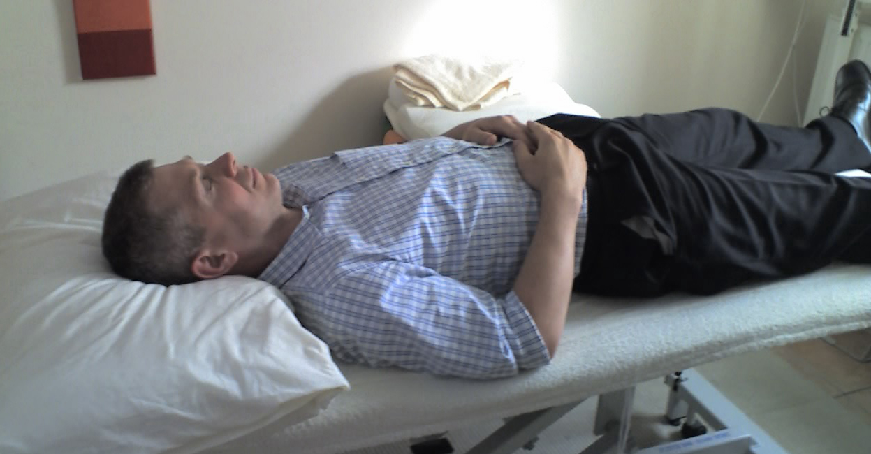 A man lying in the supine position. In this position the patient lies flat on the back, and normally draped from the neck or underarms down to the feet.This position may not be comfortable for patients who become short of breath easily.